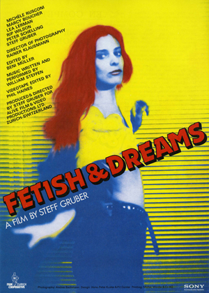 "Fetish & Dreams" promotional poster